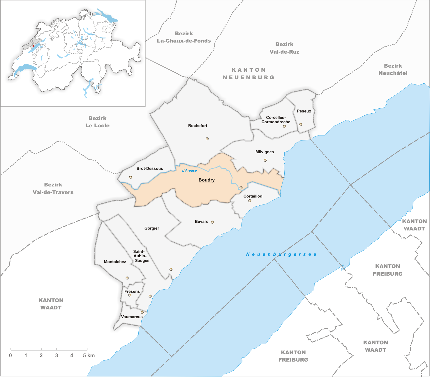 Municipality Boudry